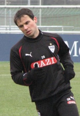 This photograph was taken by vfb-exklusiv.de and released under the license(s) stated below. You are free to use it for any purpose as long as you credit the author and follow the terms of the license.